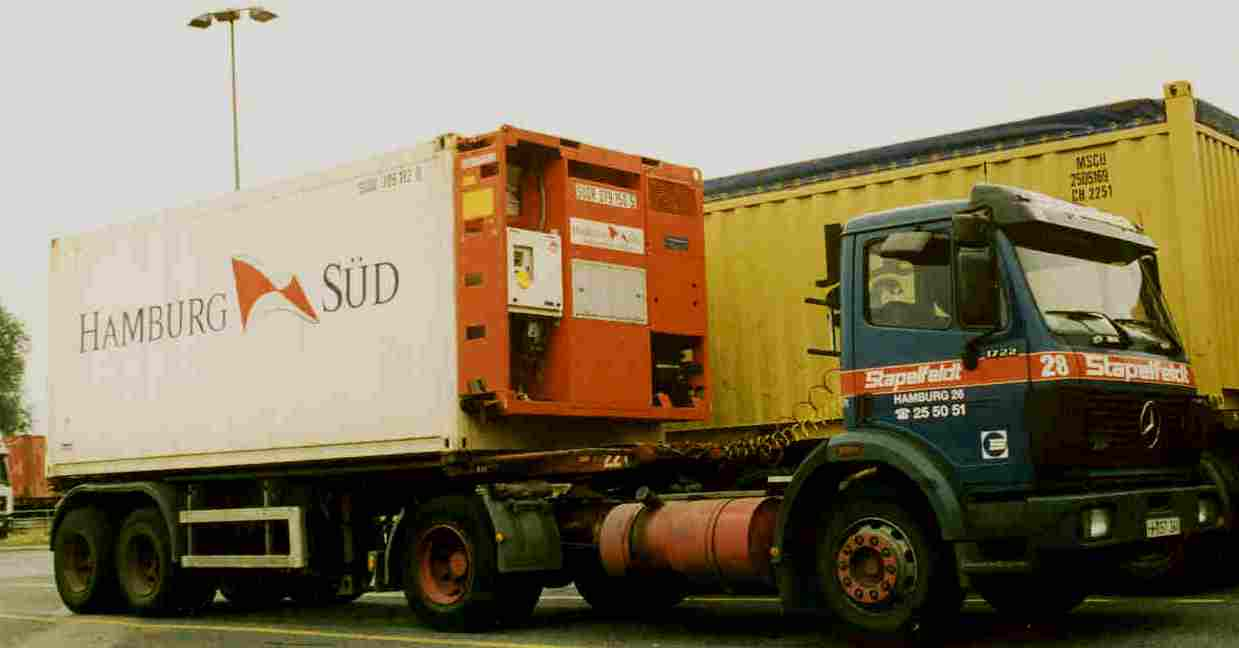 Porthole container with clip on